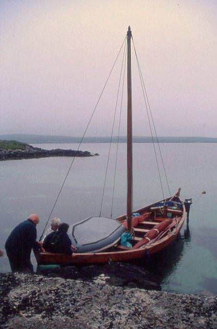 Far Haaf at Balta The Far Haaf is a replica sixareen, the type of boat used by Shetland fisherman before the advent of steam, here seen at the landing point at the south end of Balta isle.